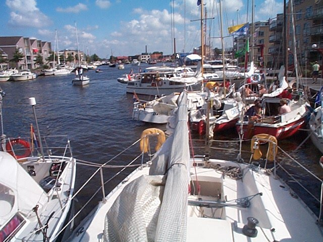 Houkeslootboulevard, Sneekweek 2006.